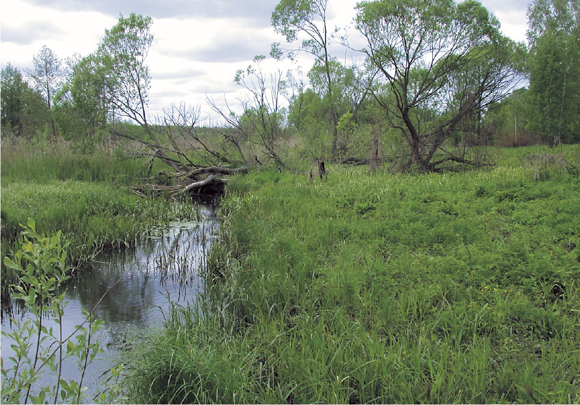 Rana temporaria biotop in Ukraine